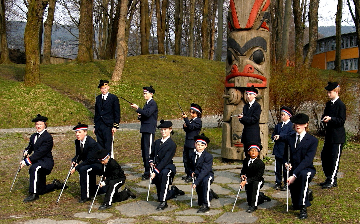 Nordnæs Bataillon